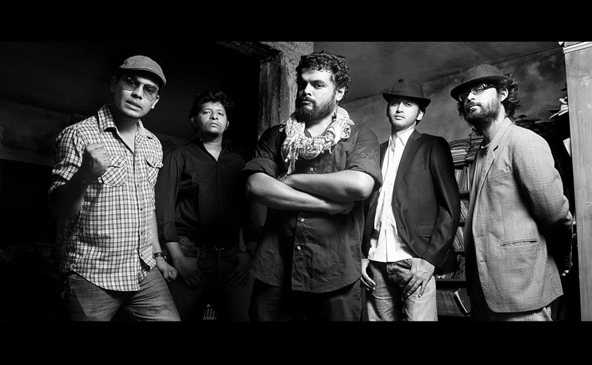 Arbovirus, a rock band based out of Dhaka, Bangladesh.